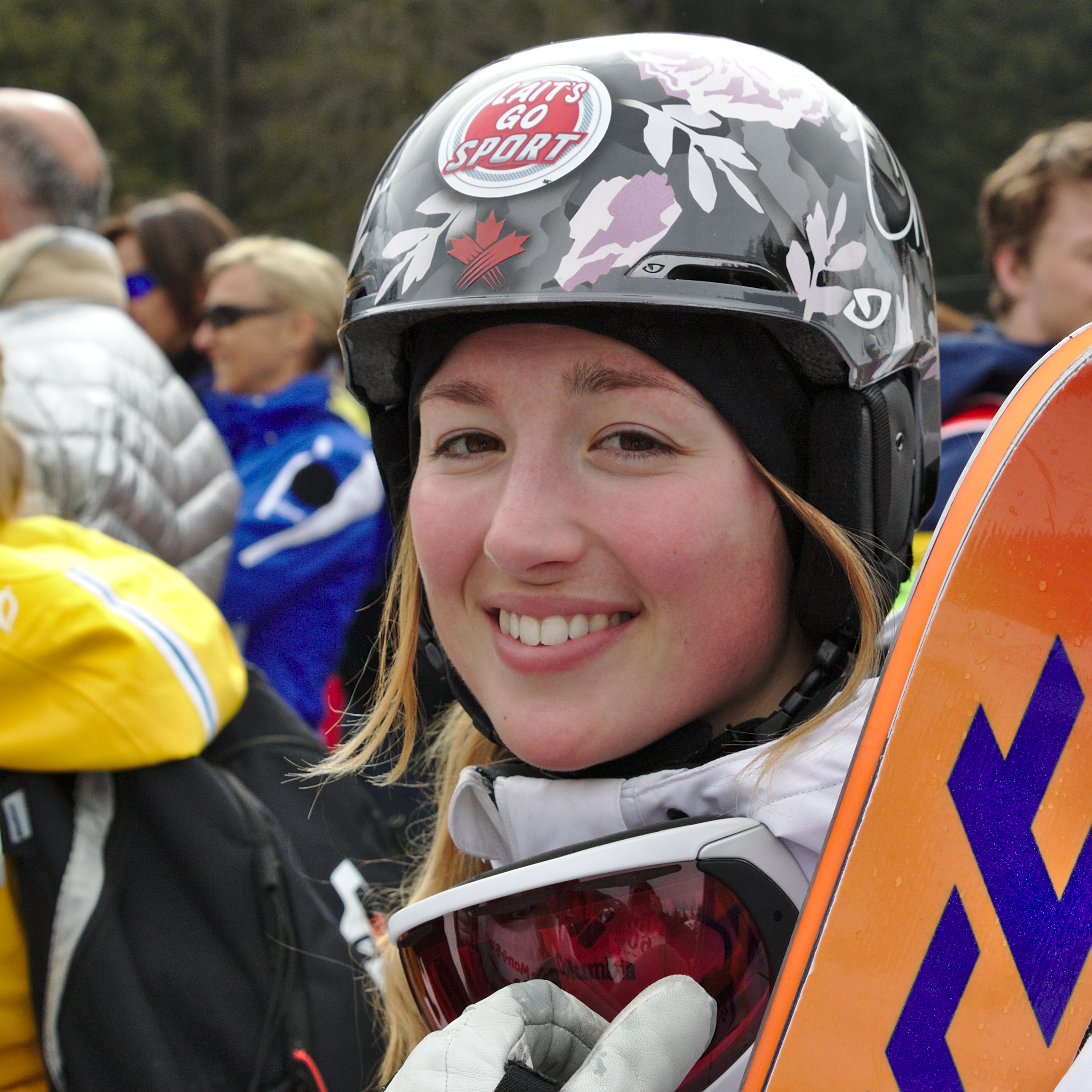 FIS Moguls World Cup 2015 Finals - Megève - 20150315 - Chloé Dufour-Lapointe